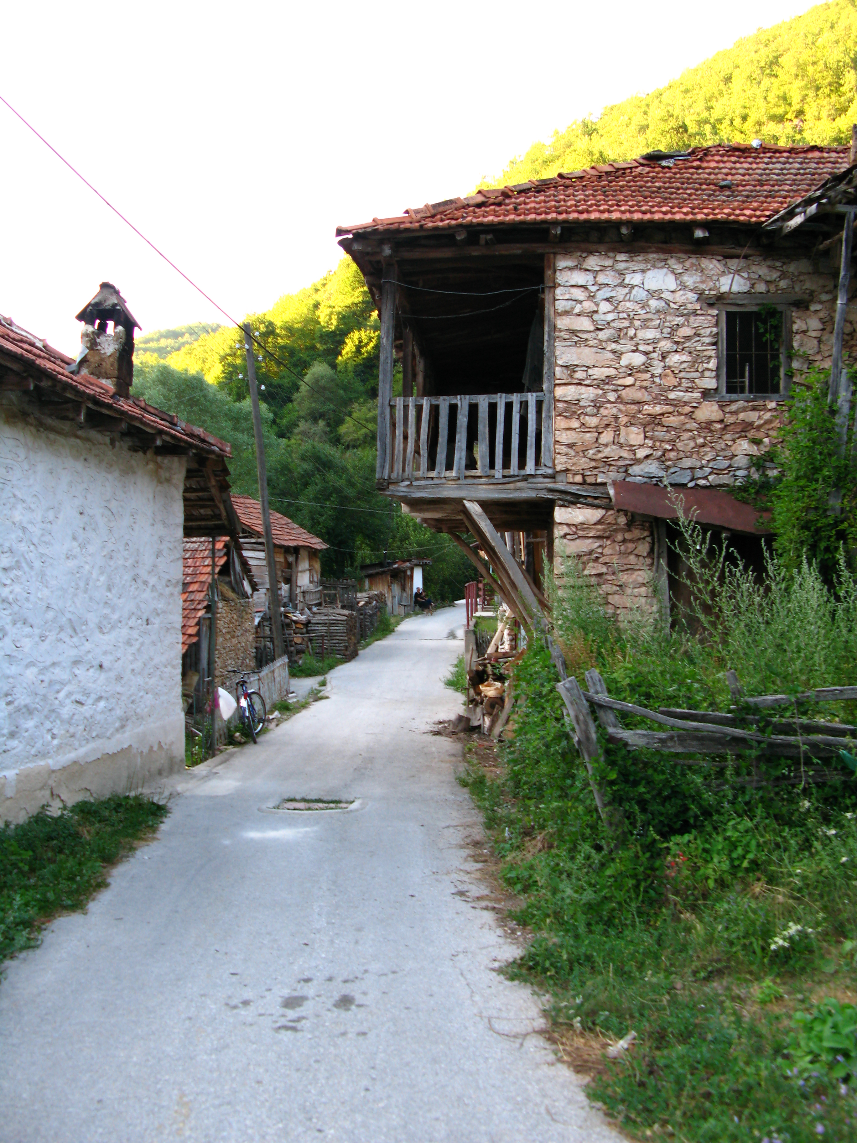 Village Železnec, Macedonia.